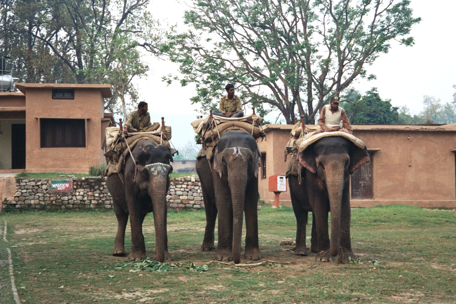 Elephants in Corbett National Park waiting to pick up tourists for a safari in the early morning. Shot May 2004 by Bodenseemann